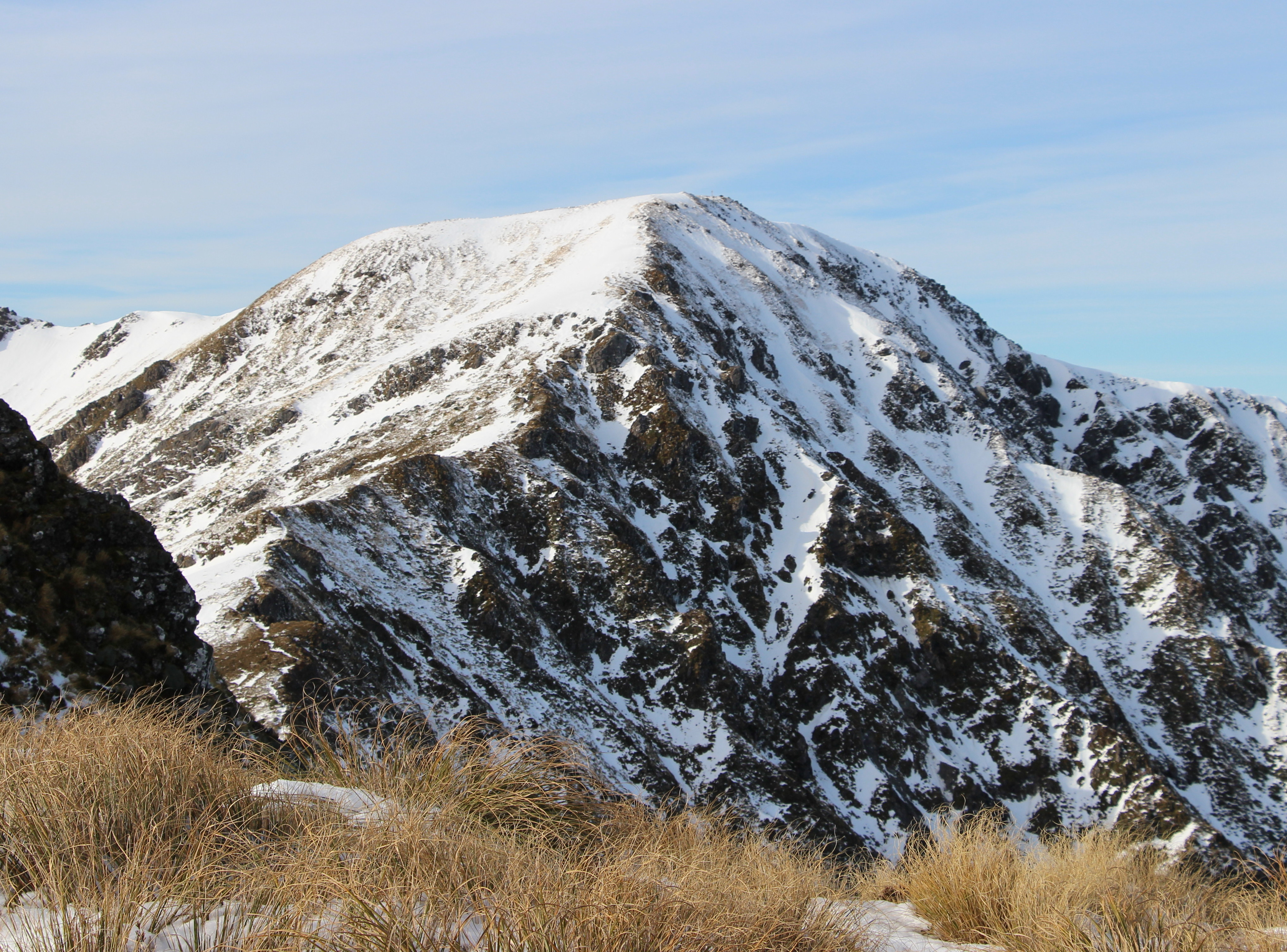 Mt Hector. Tramping track Southern Crossing. Tararuas, New Zealand